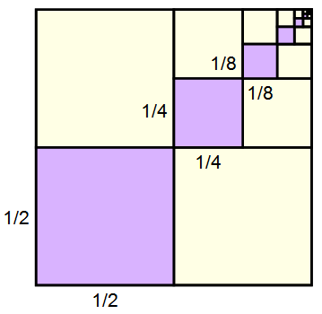 An illustration of geometric series. Each of the purple squares is 1/4 of the area of the previous square, with the total area being 1 4 + 1 16 + 1 64 + ⋯ = 1 3 . {\displaystyle {\frac {1}{4 \,+\,{\frac {1}{16 \,+\,{\frac {1}{64 \,+\,\cdots \;=\;{\frac {1}{3 .}